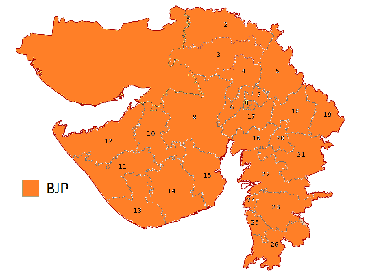 Seat Sharing of NDA in Gujarat in 2019 General Election